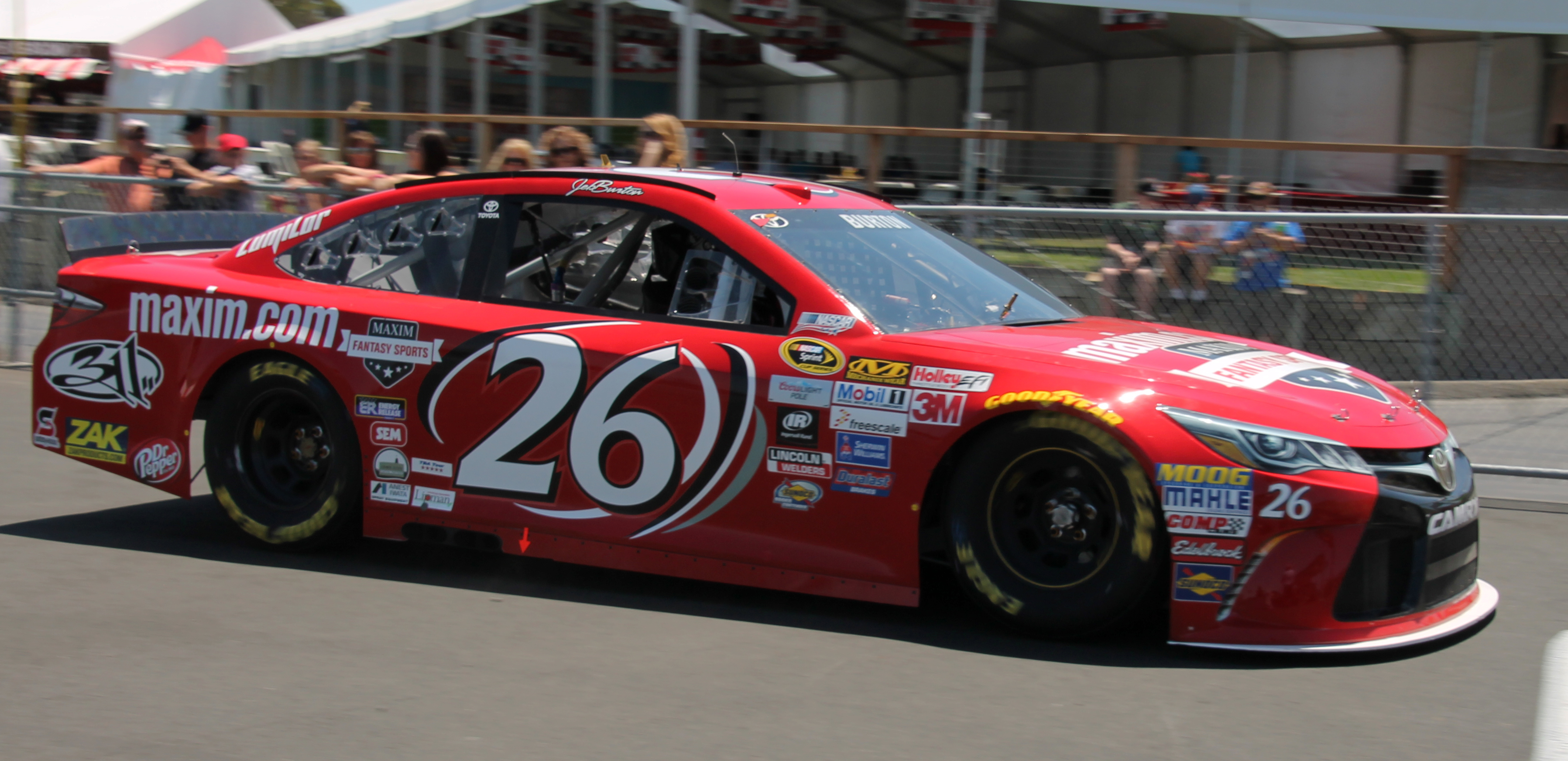 Jeb Burton's #26, 2015 Toyota/Save Mart, Sonoma, California